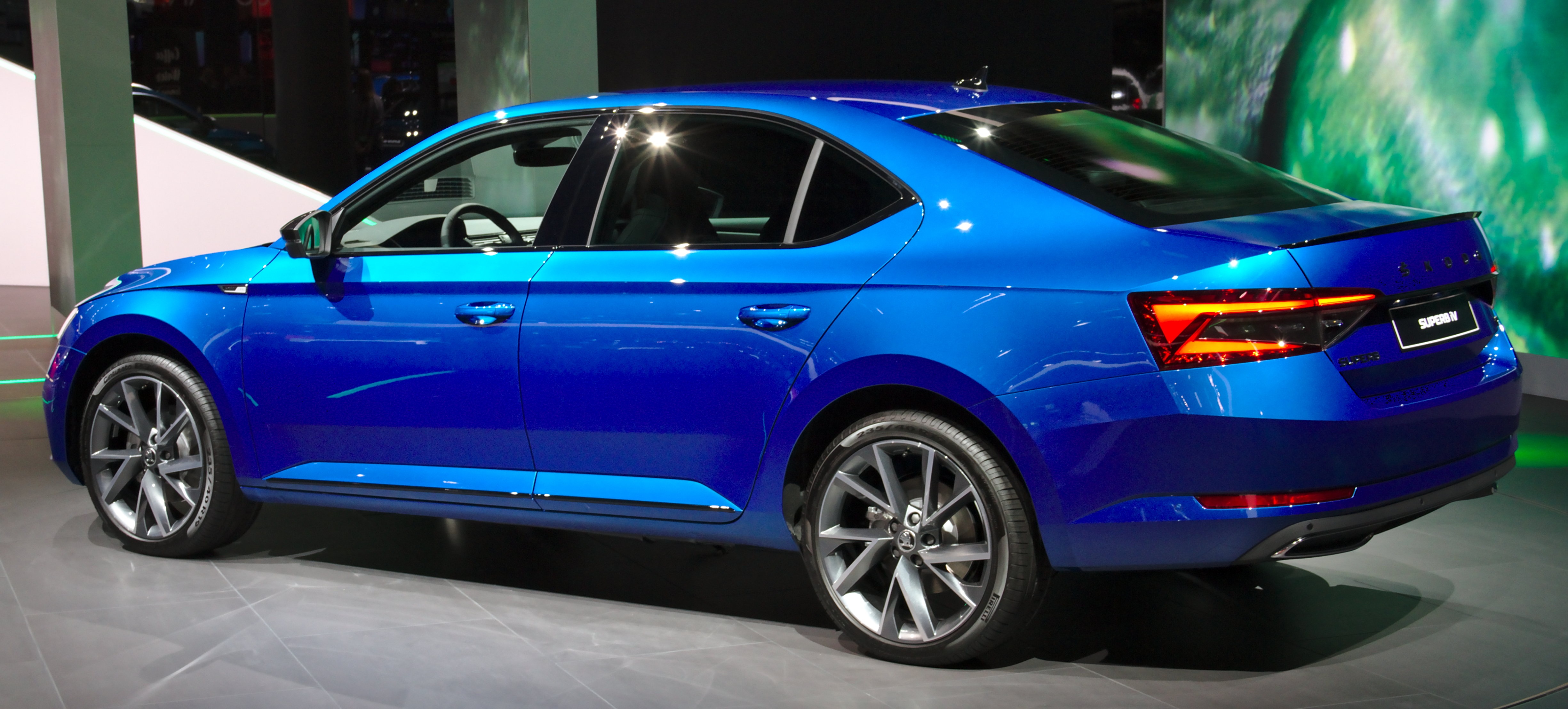 Škoda_Superb_III_iV at IAA 2019